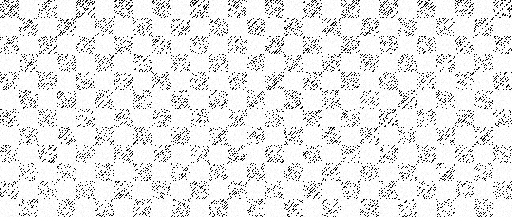 Graphical distribution of prime numbers. The image contains first 39131 primes.